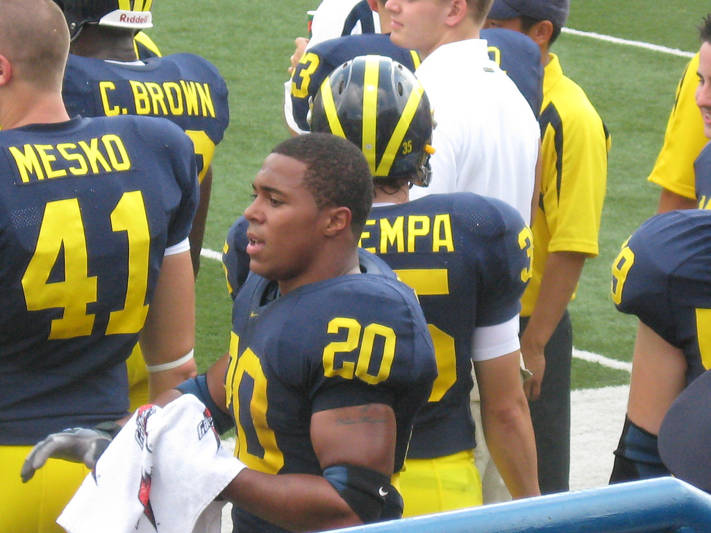 Mike Hart (American football) stands on the sidelines behind Zoltan Mesko (American football) and Carlos Brown (American football)